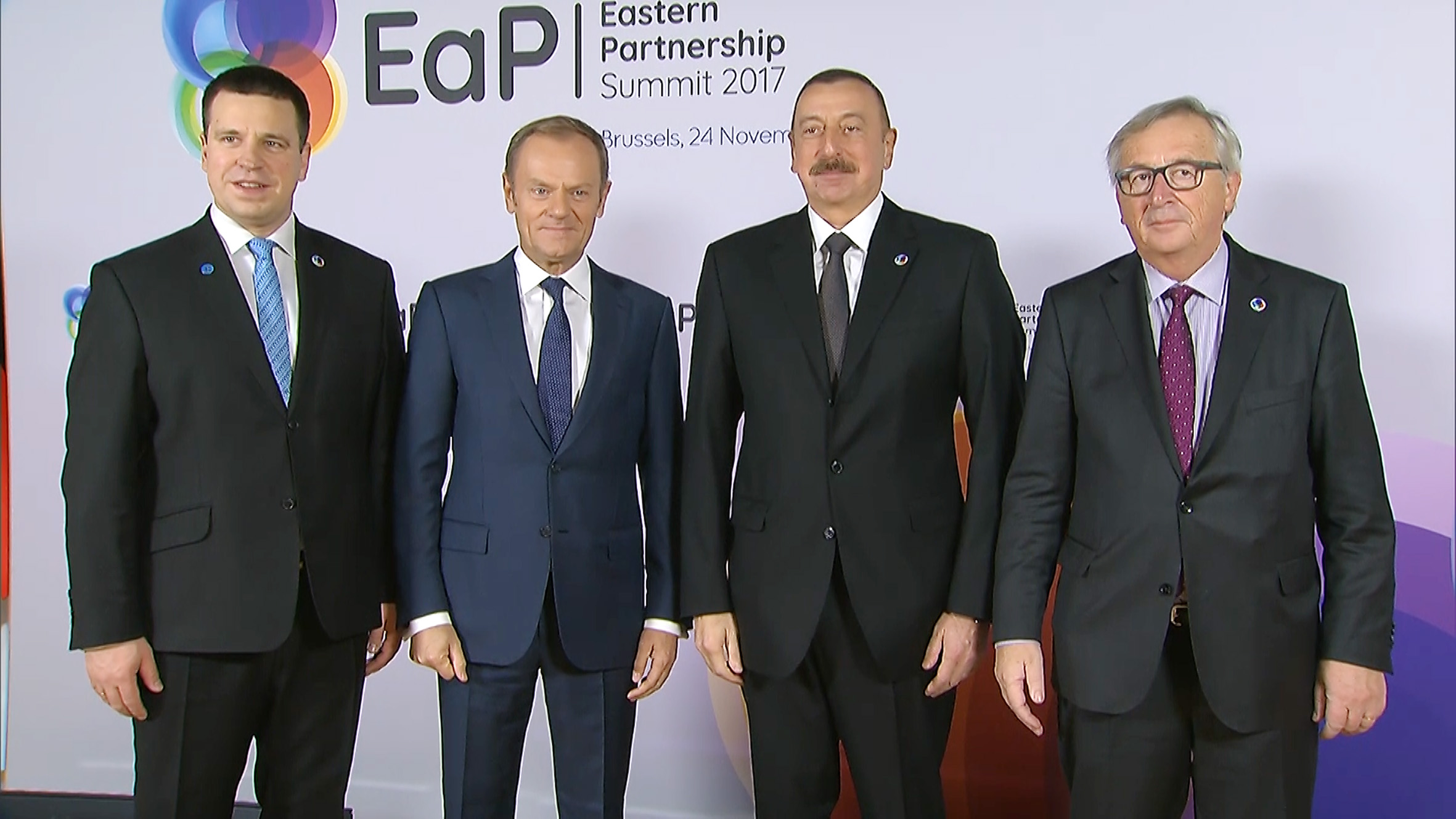 Ilham Aliyev (third from left) attended EU Eastern Partnership Summit in Brussels. First from left looks like Estonian prime minister Jüri Ratas.